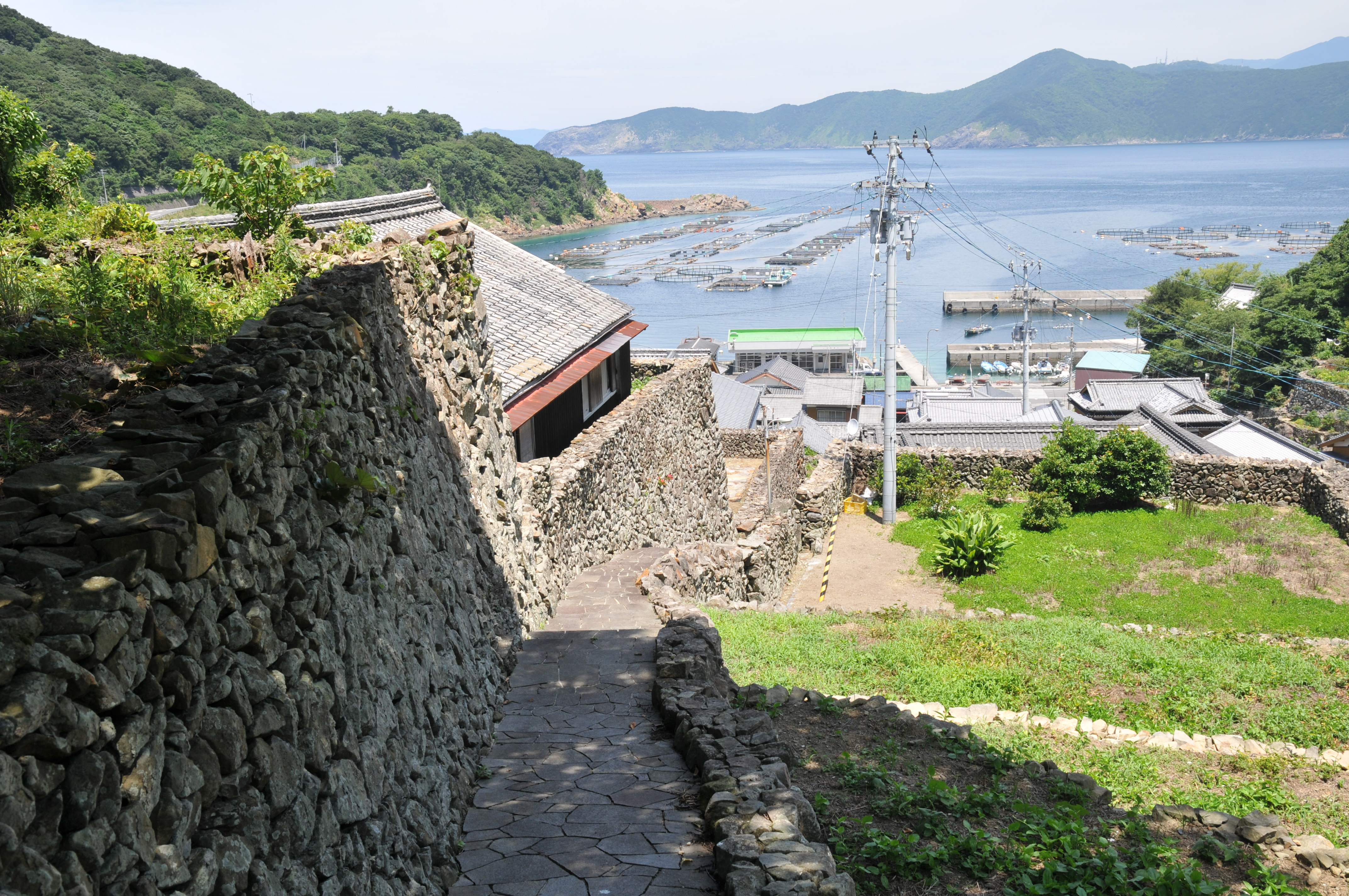 Sotodomari viewed from above